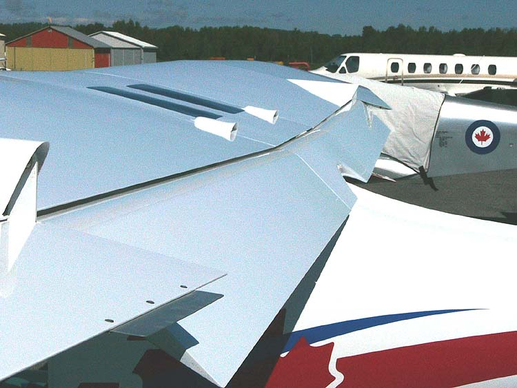 photo of a 3Xtrim 3X55 Trainer on 21 August 2006 at Peterborough, Ontario